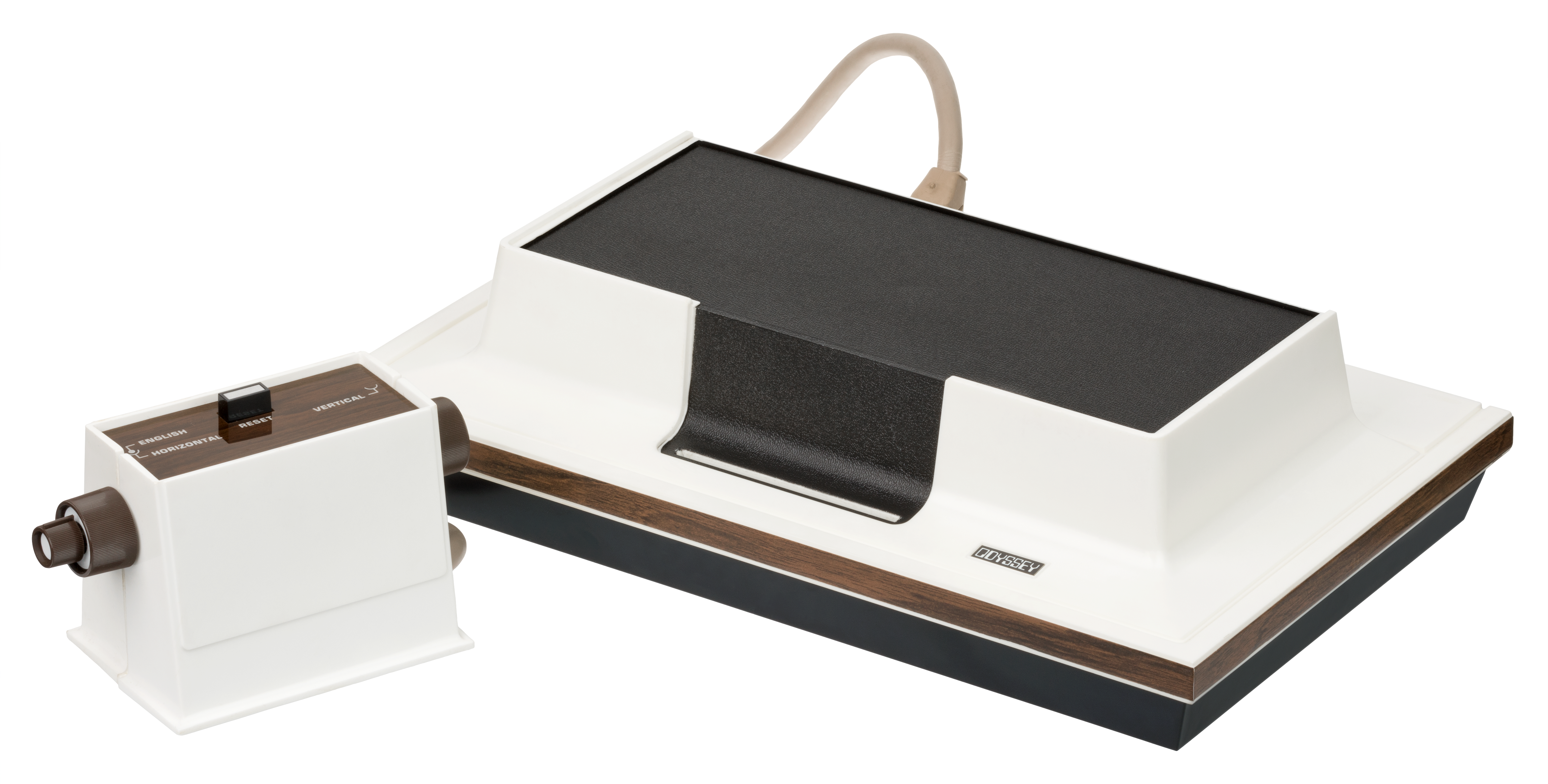 The Magnavox Odyssey, the very first video game console. Released in 1972, the Odyssey was a simple and crude device that generated shapes on the television that could be controlled and interacted with. It only produced black and white graphics and had no sound, but was limited to only using discreet components like diodes and transistors. It was replaced in 1975 with the Magnavox Odyssey series, a line of dedicated Pong consoles.